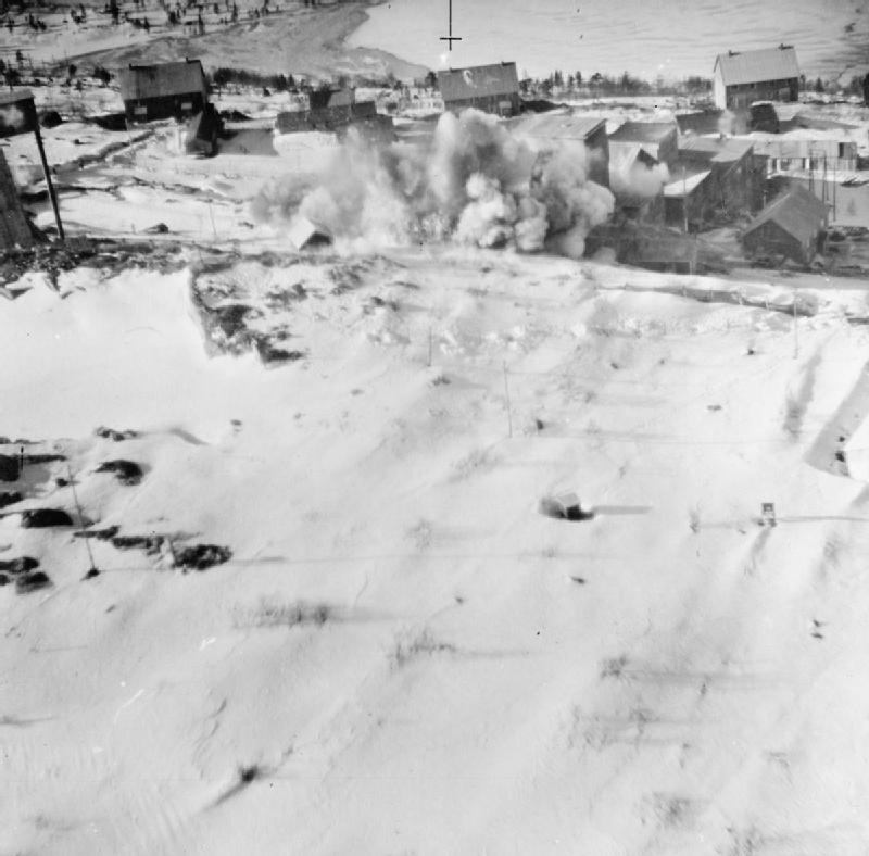 No. 139 Squadron RAF fighter bombers attacking the molybdenum mines at Knaben in German-occupied Norway.